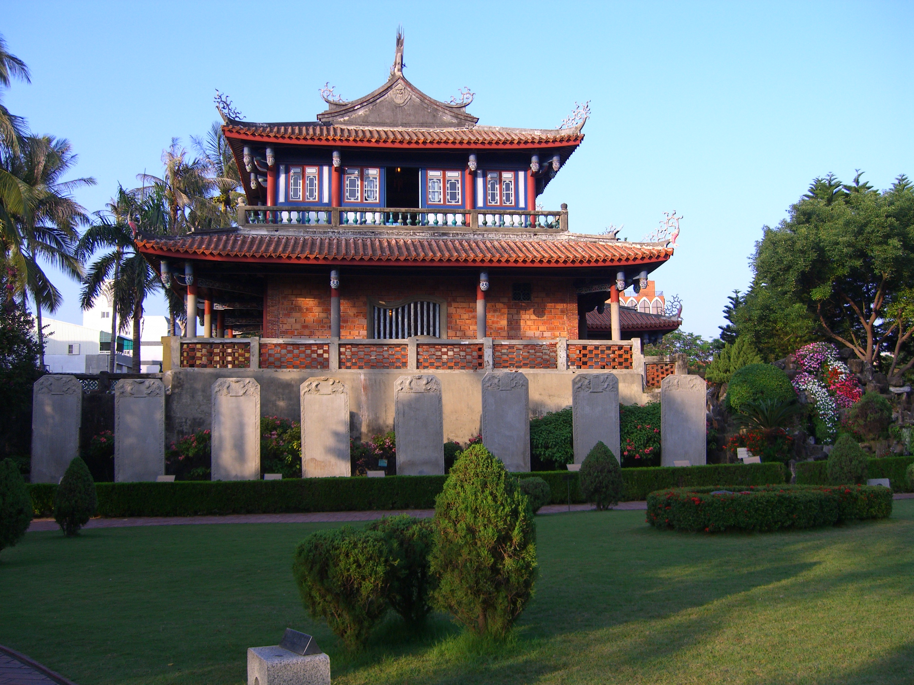 The Chihkan Tower 赤崁樓